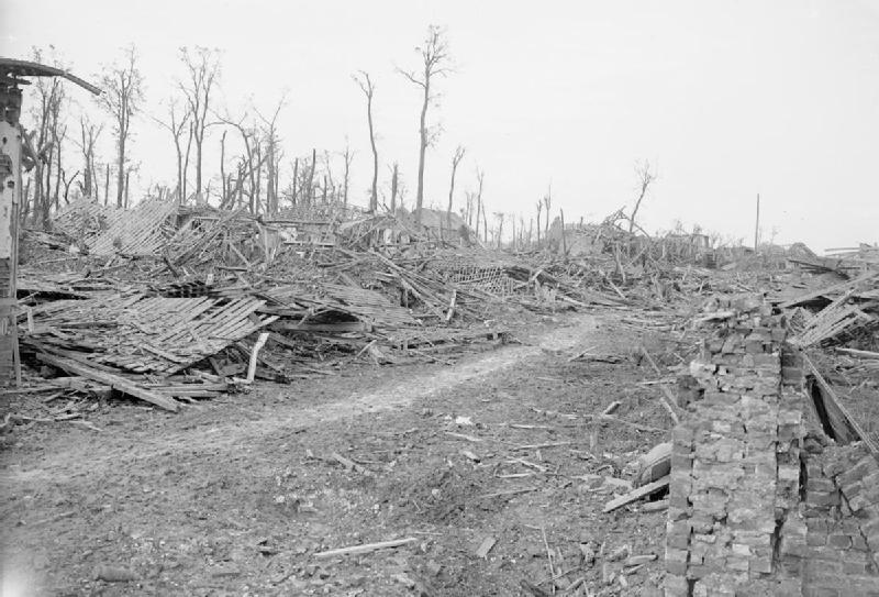 The ruins of the main street of Flers, France, after the attack of 15 September 1916 (the Battle of Flers-Courcelette).